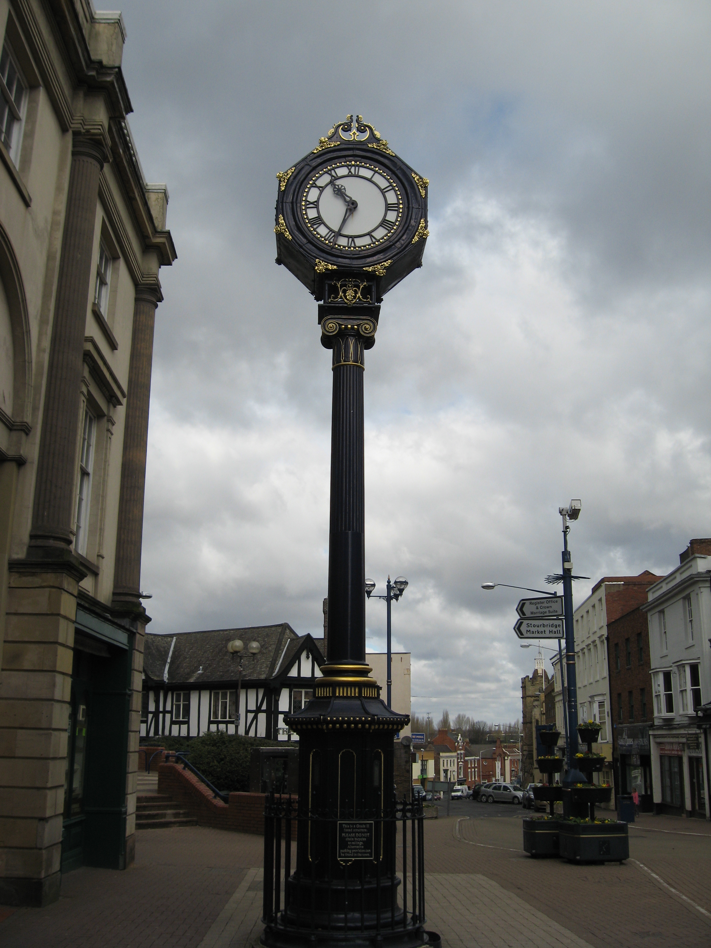 Town Clock, Stourbridge The cast iron Town Clock was made in 1857 and until relatively was manually wound twice a week. A much needed restoration was carried out in 2007 when the clock was 150-years old. This provided the opportunity to change the clock’s colour to the town’s traditional colours of dark blue and gold.